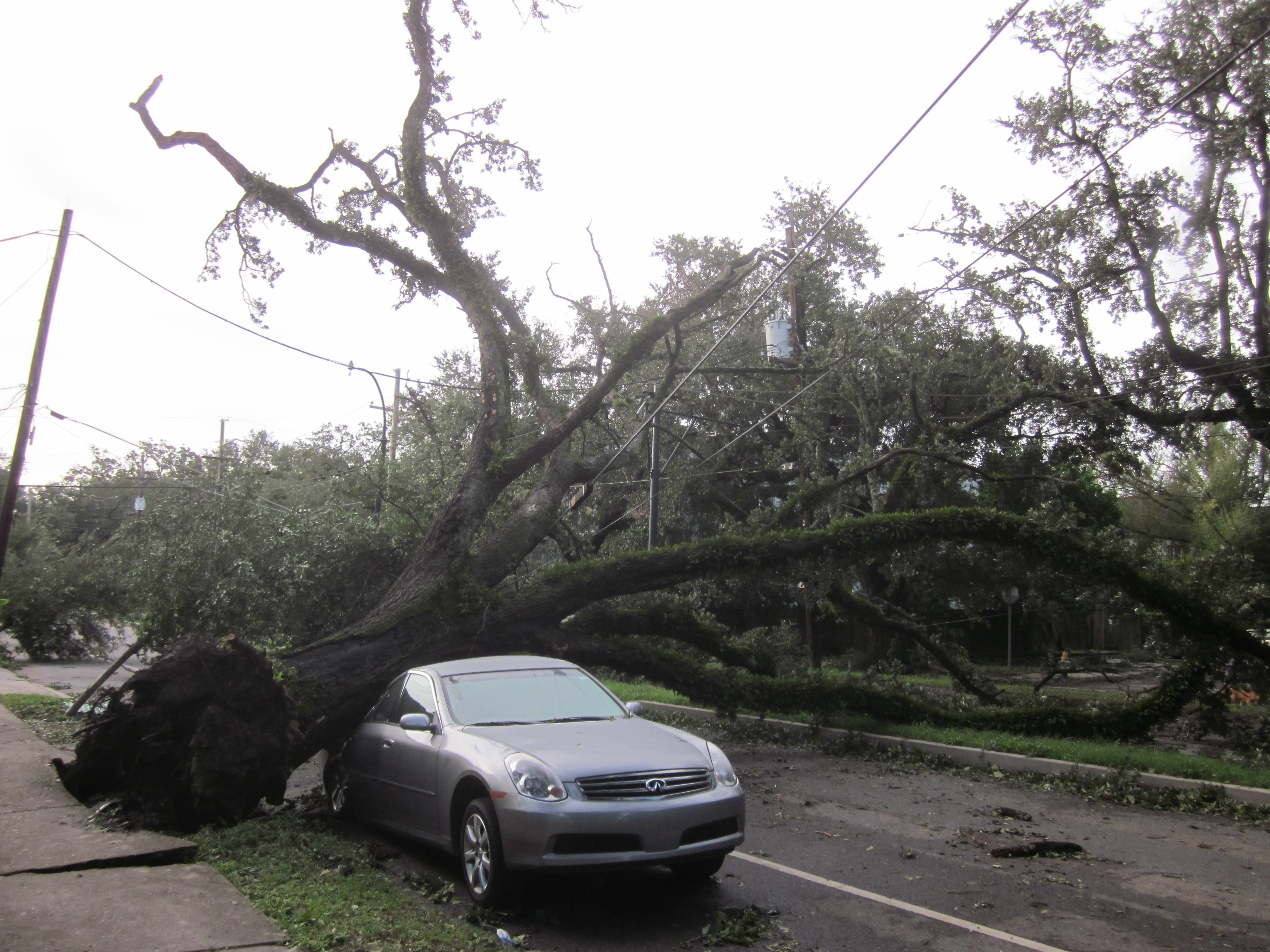 New Orleans after Hurricane Isaac. We escaped flooding, but not wind damage. Oak tree crashed on car, Old Carrollton Riverbend neighborhood.